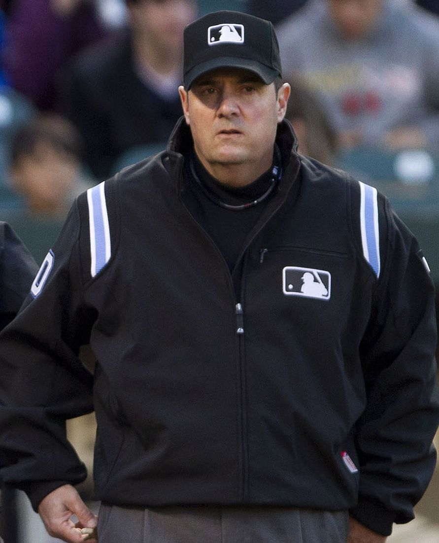 MLB umpire Marty Foster - Athletics at Orioles April 27, 2012